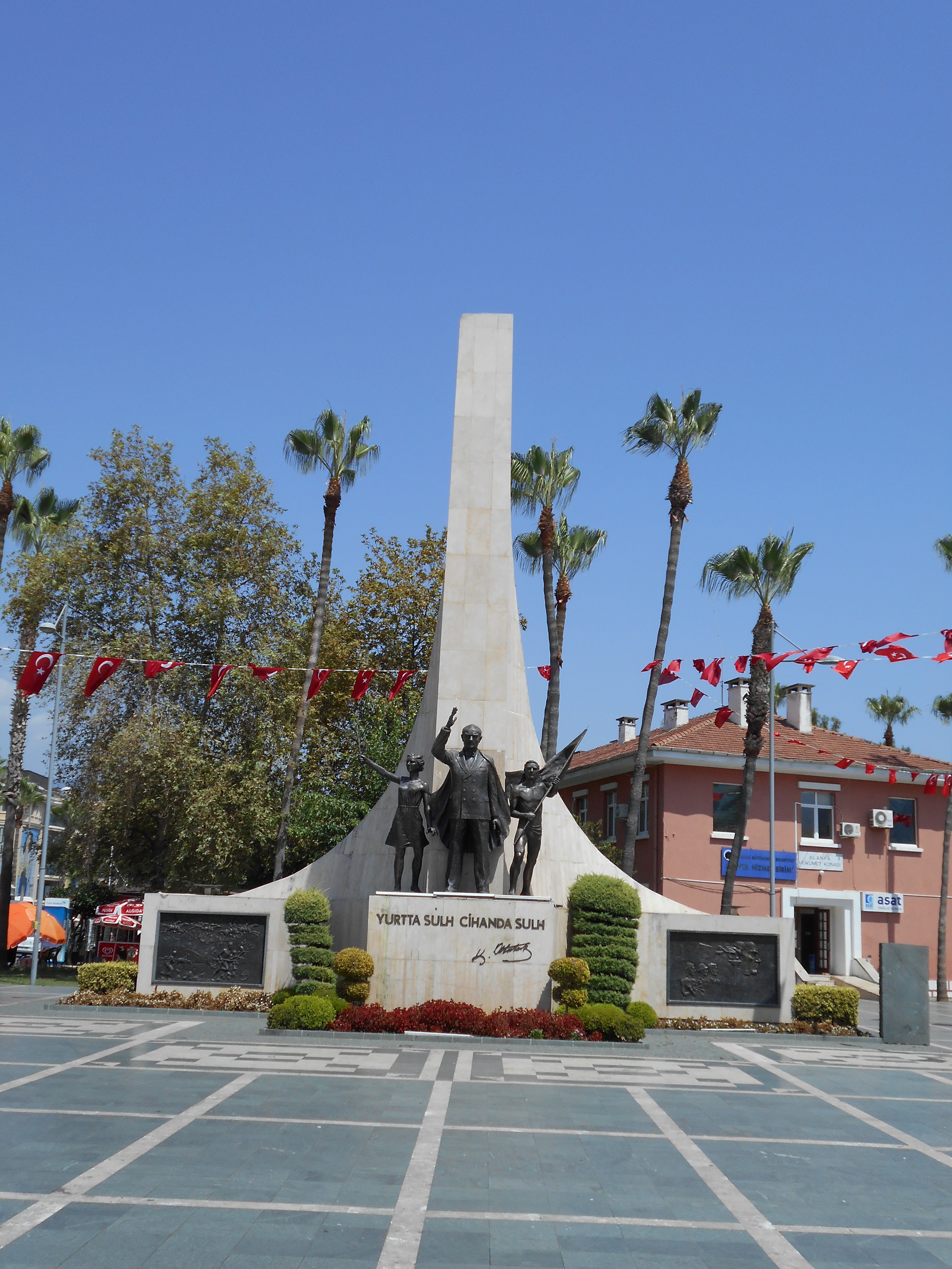 Atatürk Memorial in Alanya, Turkey: Yurtta Sulh, Cihanda Sulh